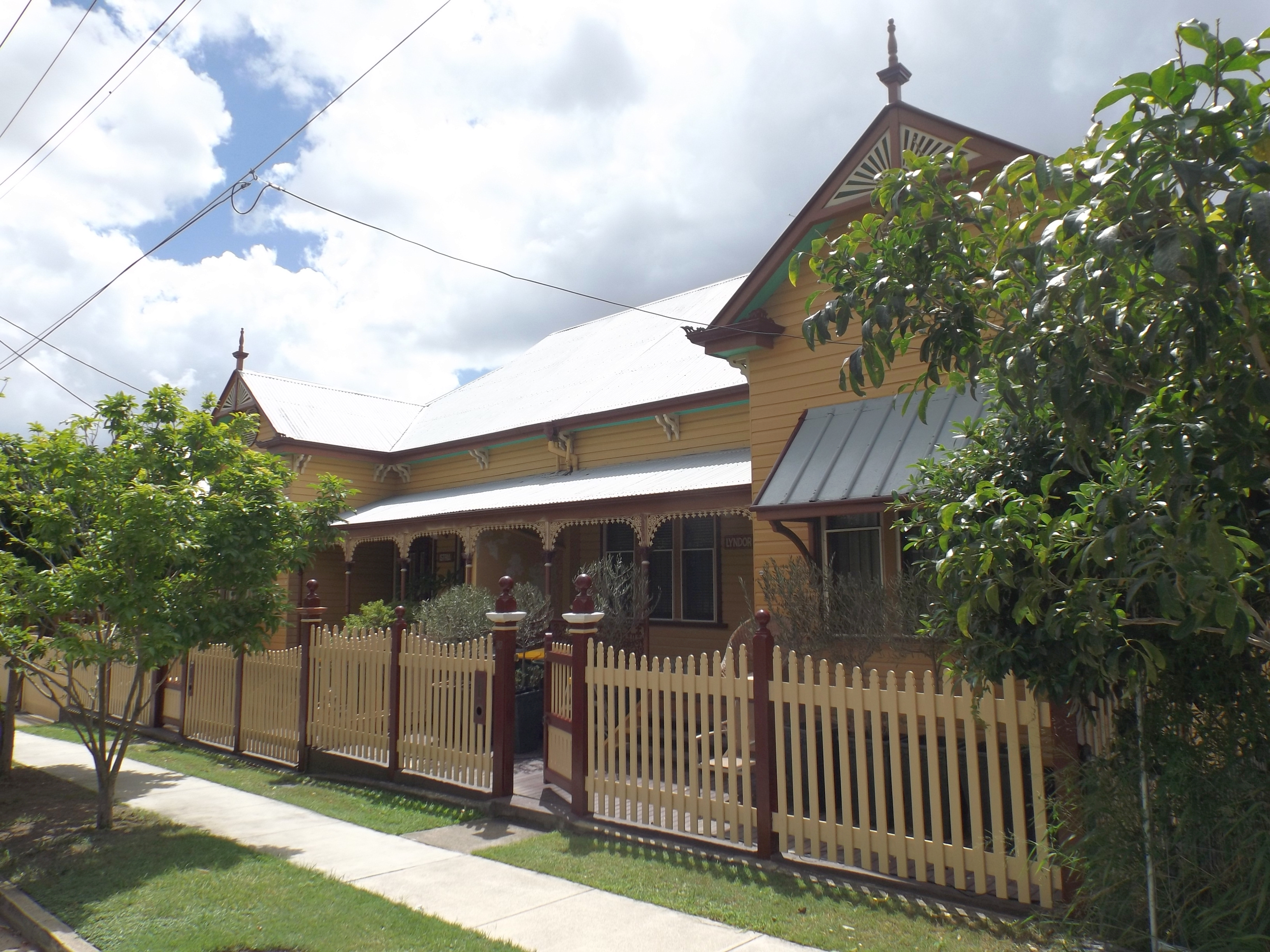 Photo of Brighton Terrace at West End, Brisbane, Queensland, Australia.